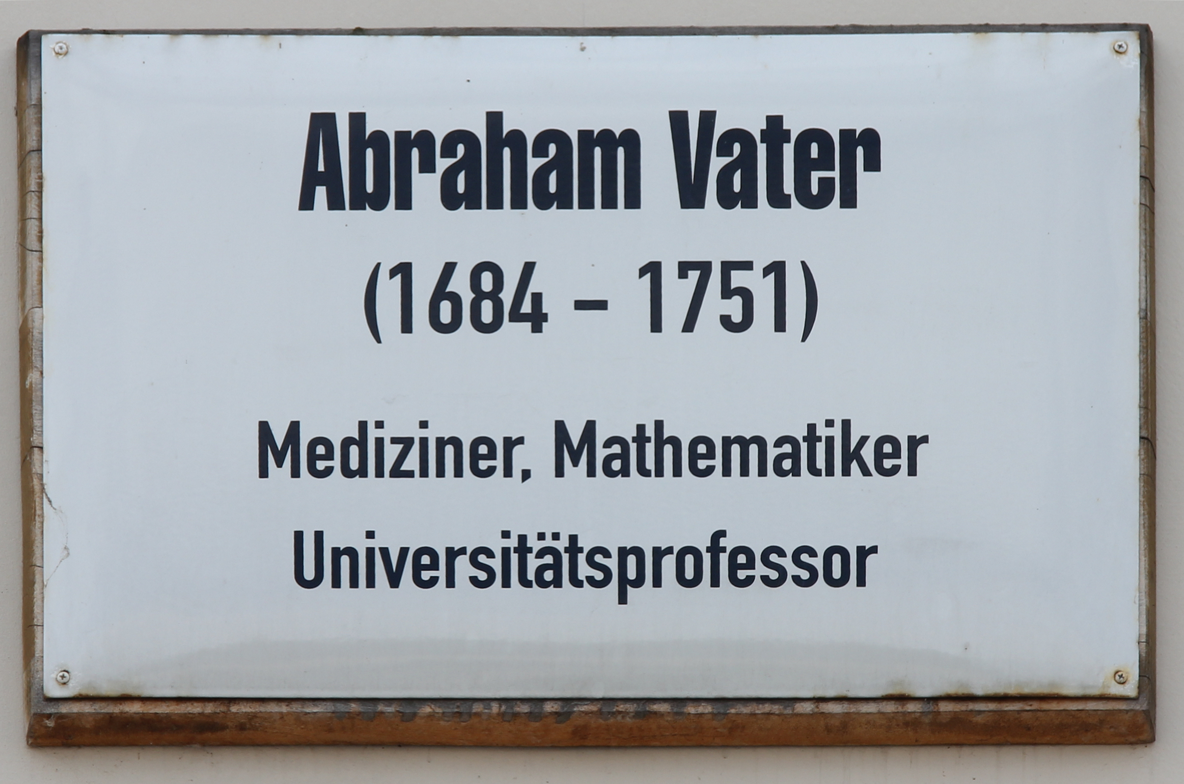 Memorial plaque, Abraham Vater, Schloßstraße 14-15, Lutherstadt Wittenberg, Germany Koordinate:51°51′59″N 12°38′23″E / 51.86639°N 12.63972°E